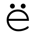 Lokalize logo.